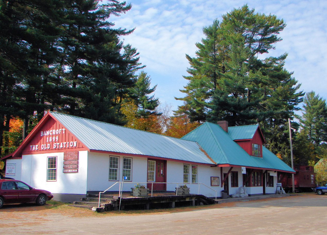 Old train station (local chamber of commerce until 2008) in Bancroft, Ontario, Canada. This building was moved to a new foundation in 2011 and has now been restored.